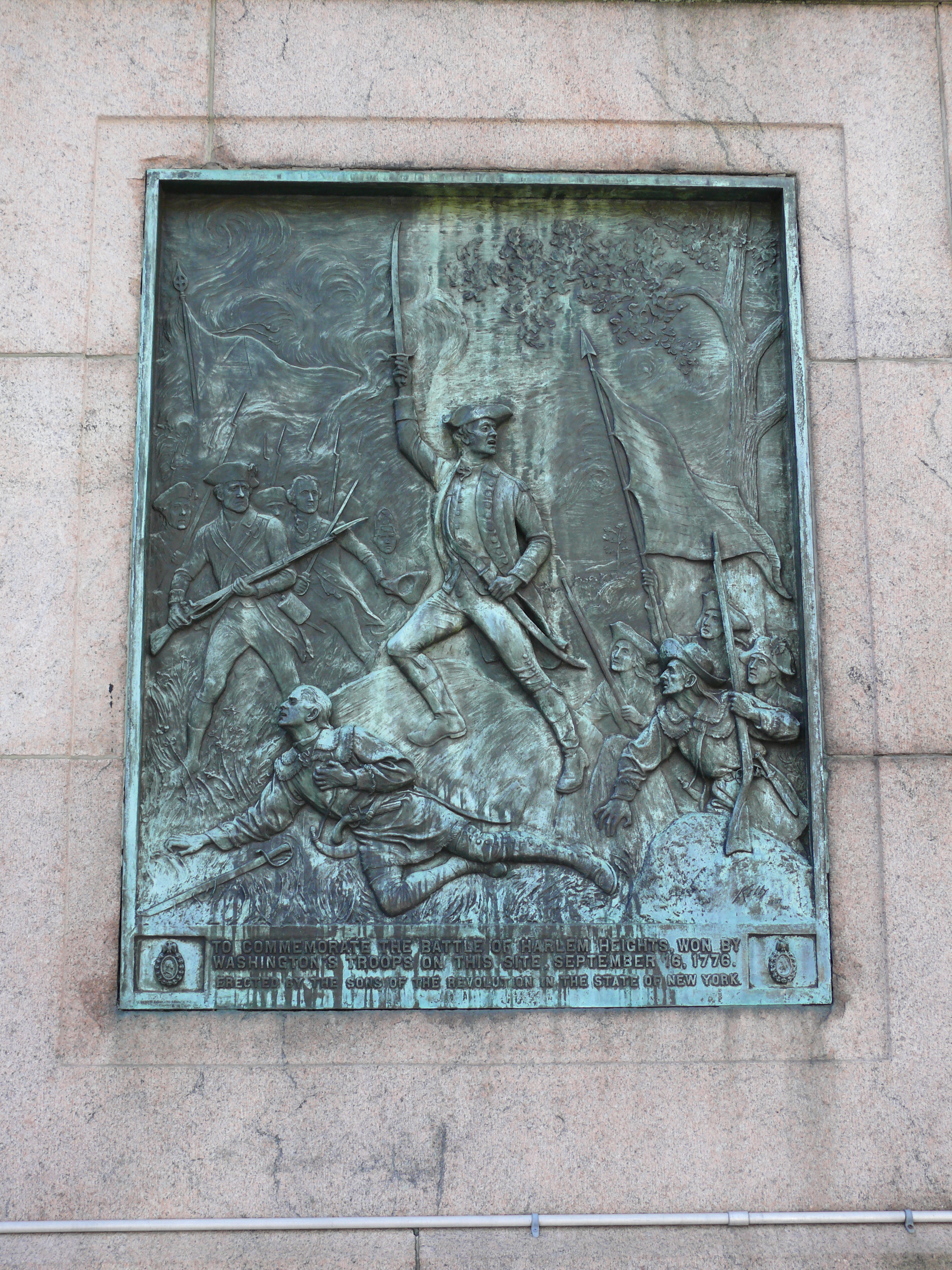 A plaque commemorating the American Victory at Harlem Heights during the American Revolutionary War.